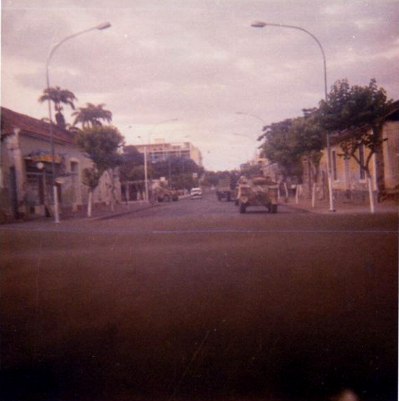 Eland armoured cars driving through Sa da Bandeira circa 26 October 1975, during Operation Savannah.